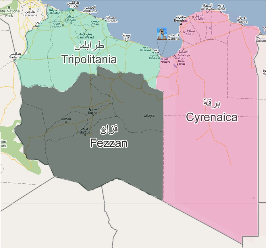 Location of the Marble Arch at the map of Libya